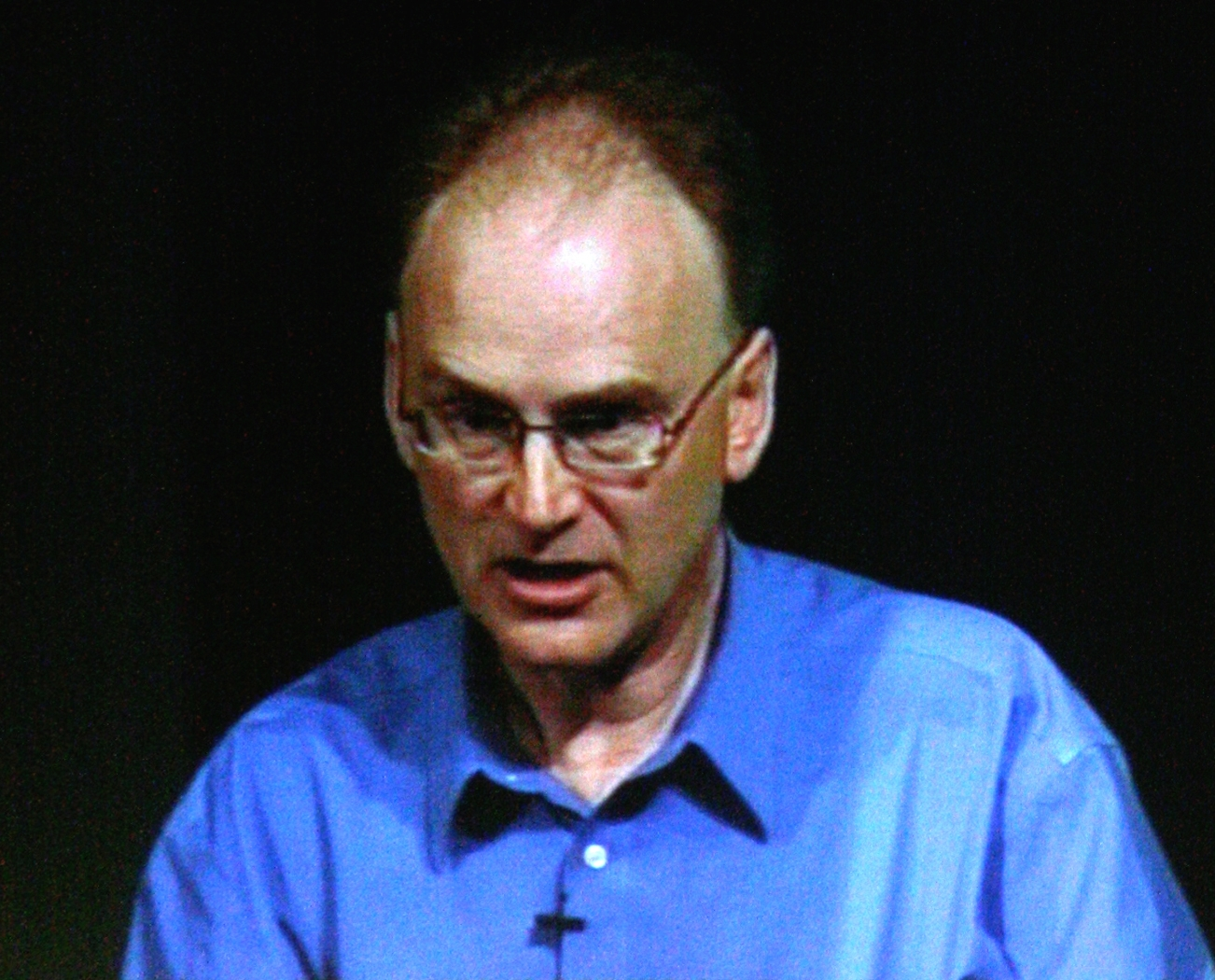 Spoke again at Thinking Digital in Newcastle Upon Tyne in 2009 (cropped from original; this is a projection)